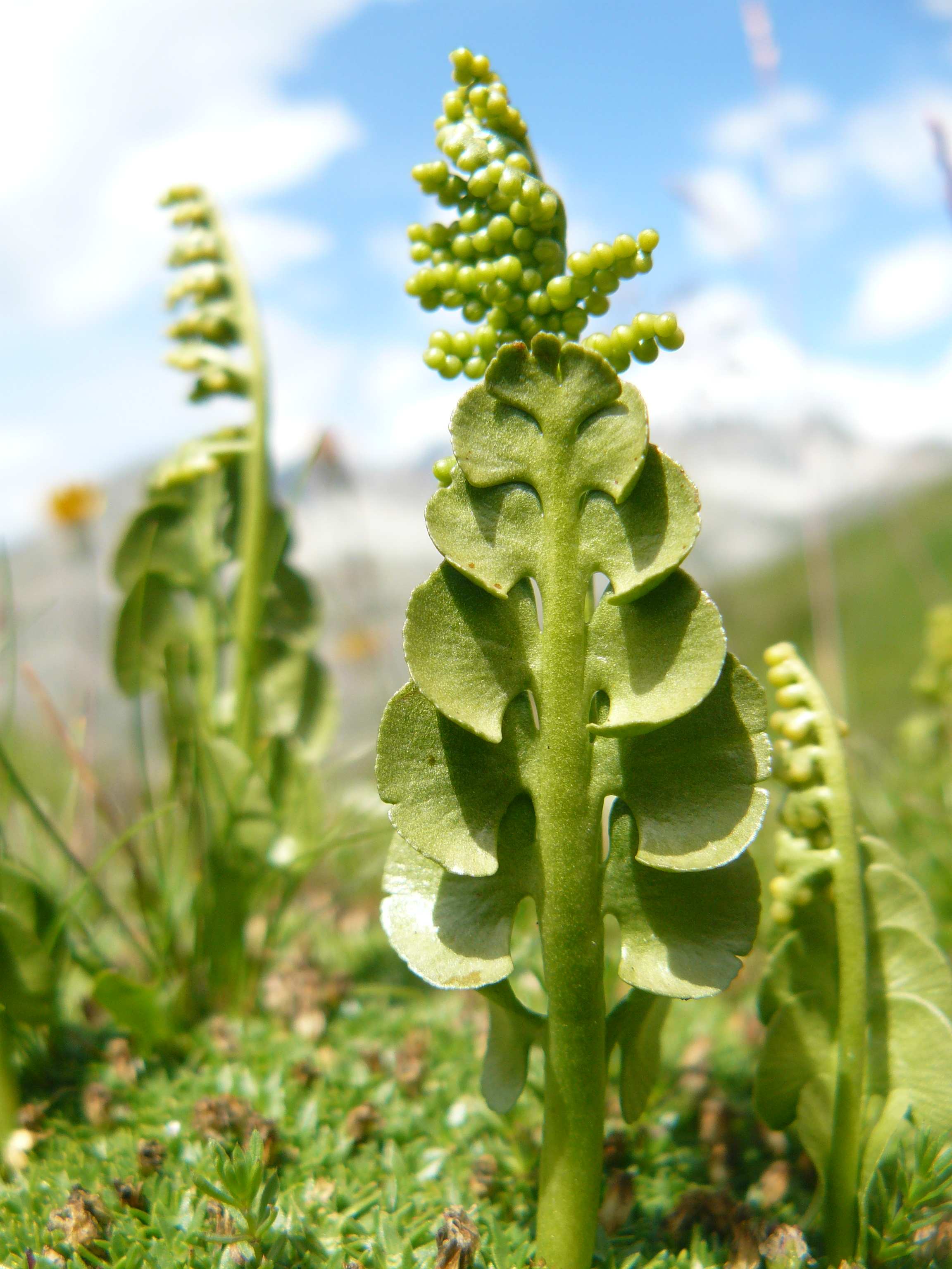 Botrychium lunaria on Minuartia sedoides, Mountain pass of Iseran, Vanoise montains (73), France